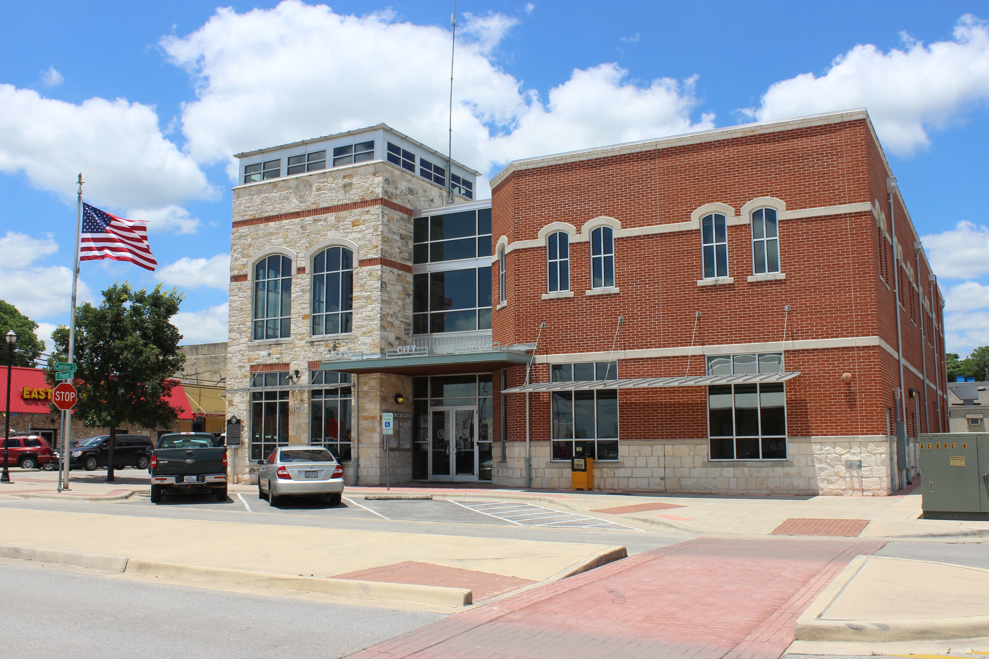 Kyle City Hall. Kyle, Texas